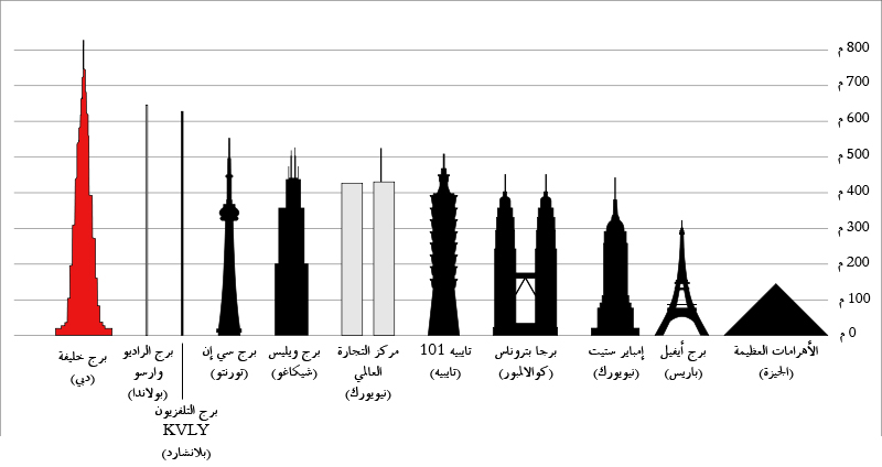 Diagram comparing the height of Burj Khalifa to other buildings and structures. Range: 100–800 metres or 330–2,620 feet.